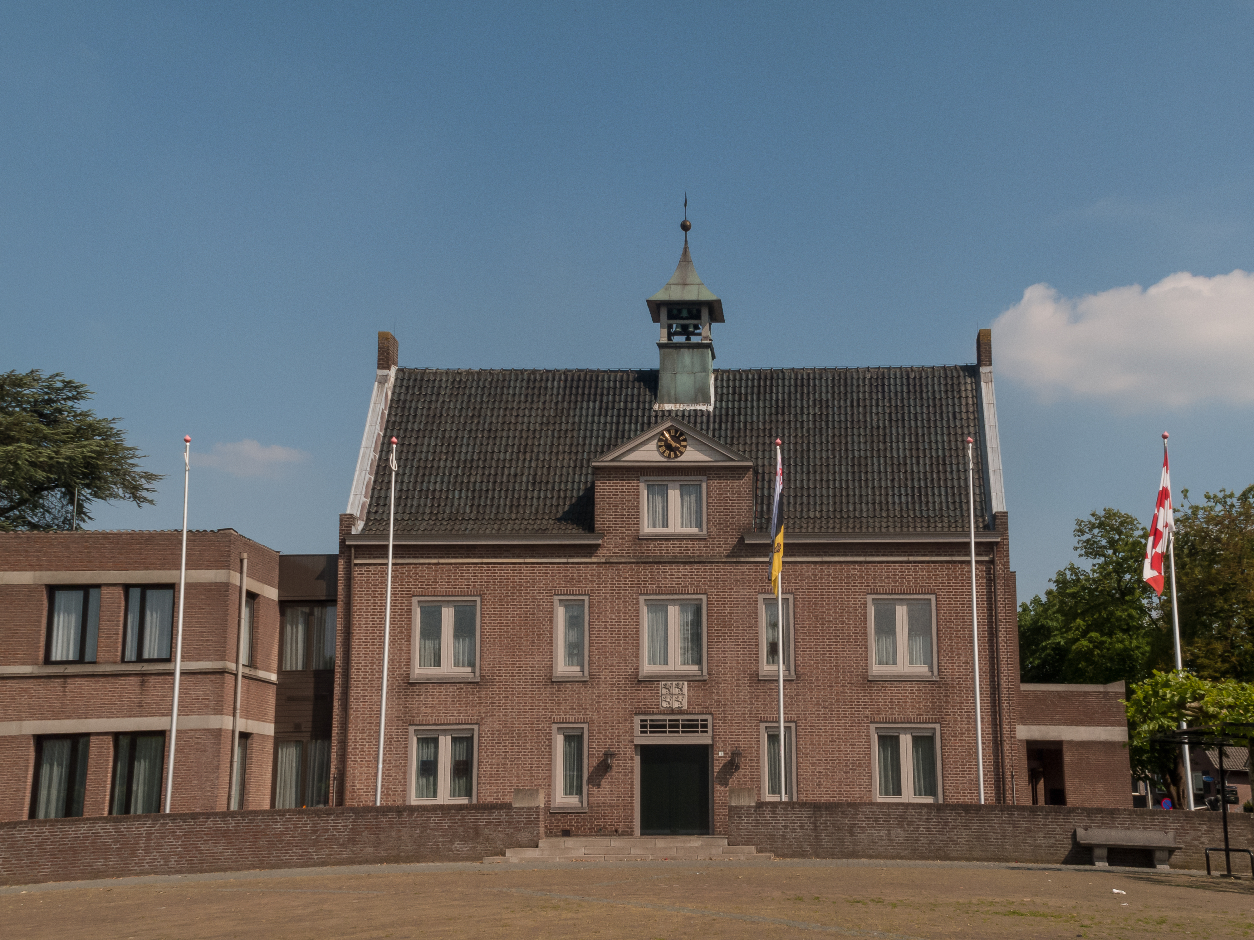 Part of the townhall in Someren